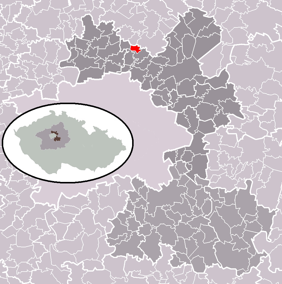 Location of Nová Ves municipality within Prague-East District and administrative area of Brandýs nad Labem-Stará Boleslav as a Municipality with Extended Competence.